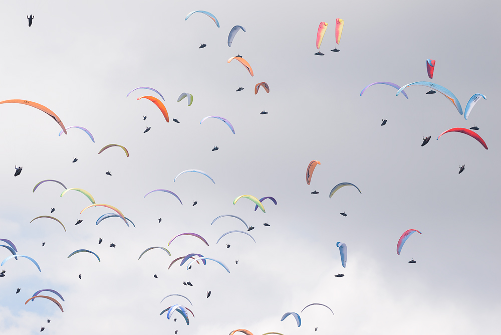 15th FAI World Paragliding Championship, Monte Avena, Italy 2017 - task Rubbio (Tortima) Bassano del Grappa